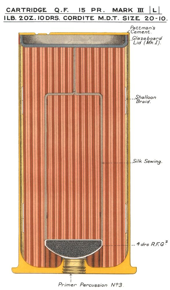 Diagram of Mk III cartridge for British QF 15 pounder field gun. Mk III cartridge case takes Percussion Primer No.3 in the base. Mk II cartridge case is similar, but takes Percussion Cap in a cap chamber. Mk I cartridge case was the original German design purchased with the guns, and superseded by the Britisk Mk II and Mk III designs. Propellant charge is 1 lb 2 oz 10 drams Cordite M.D.T Size 20-10 for shrapnel and case shot; reduced charge of 4 oz for star shell.